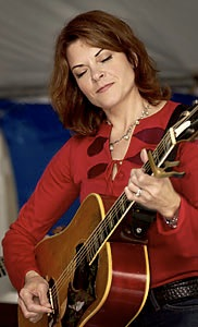 Rosanne Cash performs at a Virginia folk festival.